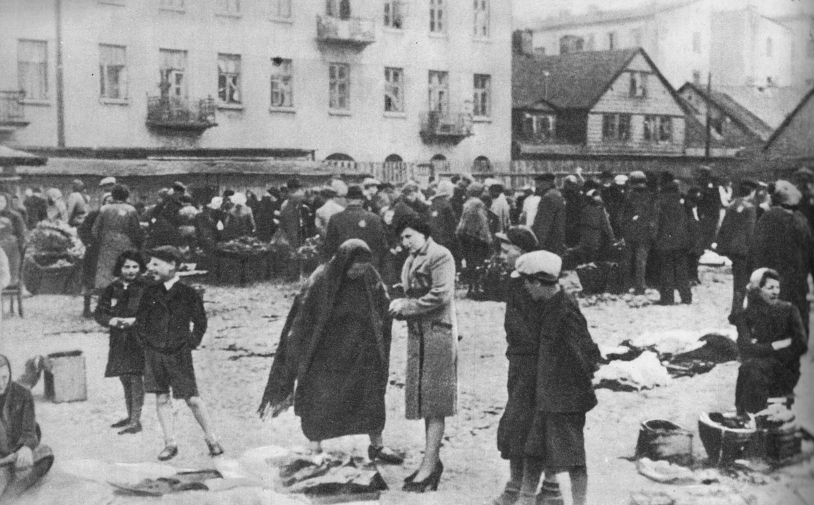 Jews in Litzmannstadt Ghetto. The Jojne Pilcer Market at the intersection of Łagiewnicka and Berliński streets.